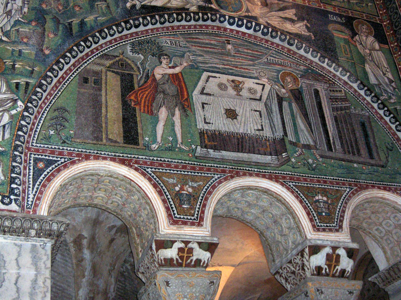 Sacrifice of Abel and Melchizedek (lunette above the triforium); Isaiah (in the spandrel); Basilica of San Vitale in Ravenna, Italy.